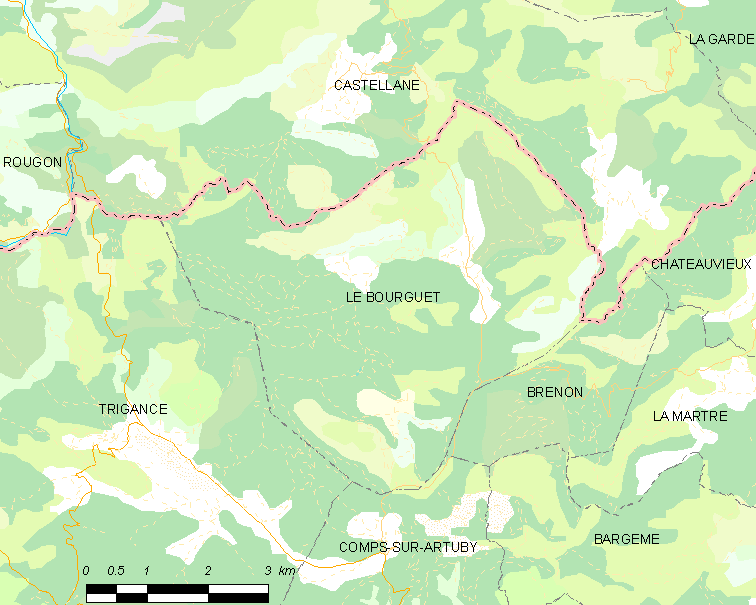 Map of French municipality Le Bourguet